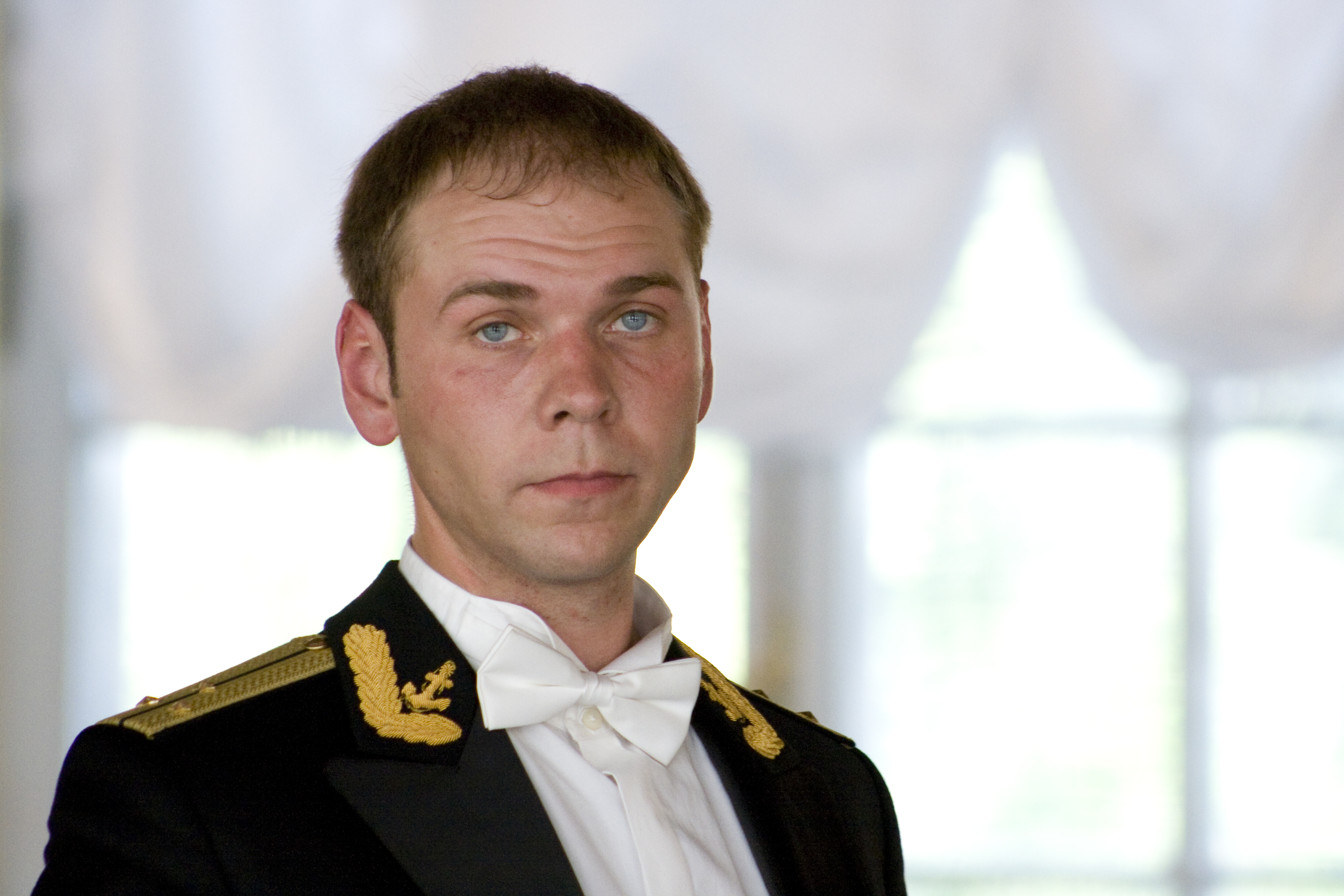 Valentin Lyaschenko - Russian conductor